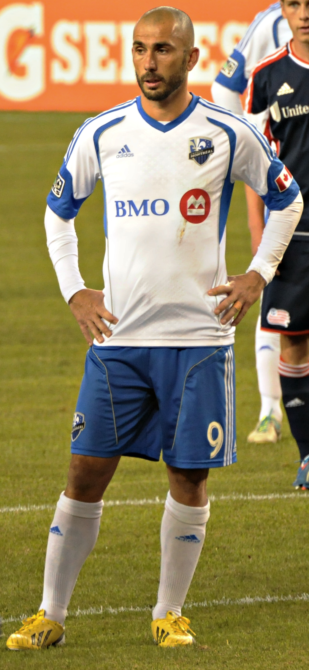 Marco Di Vaio of the Montreal Impact during a Major League Soccer match against the New England Revolution in Foxborough, Massachusetts, on 8 September 2013.